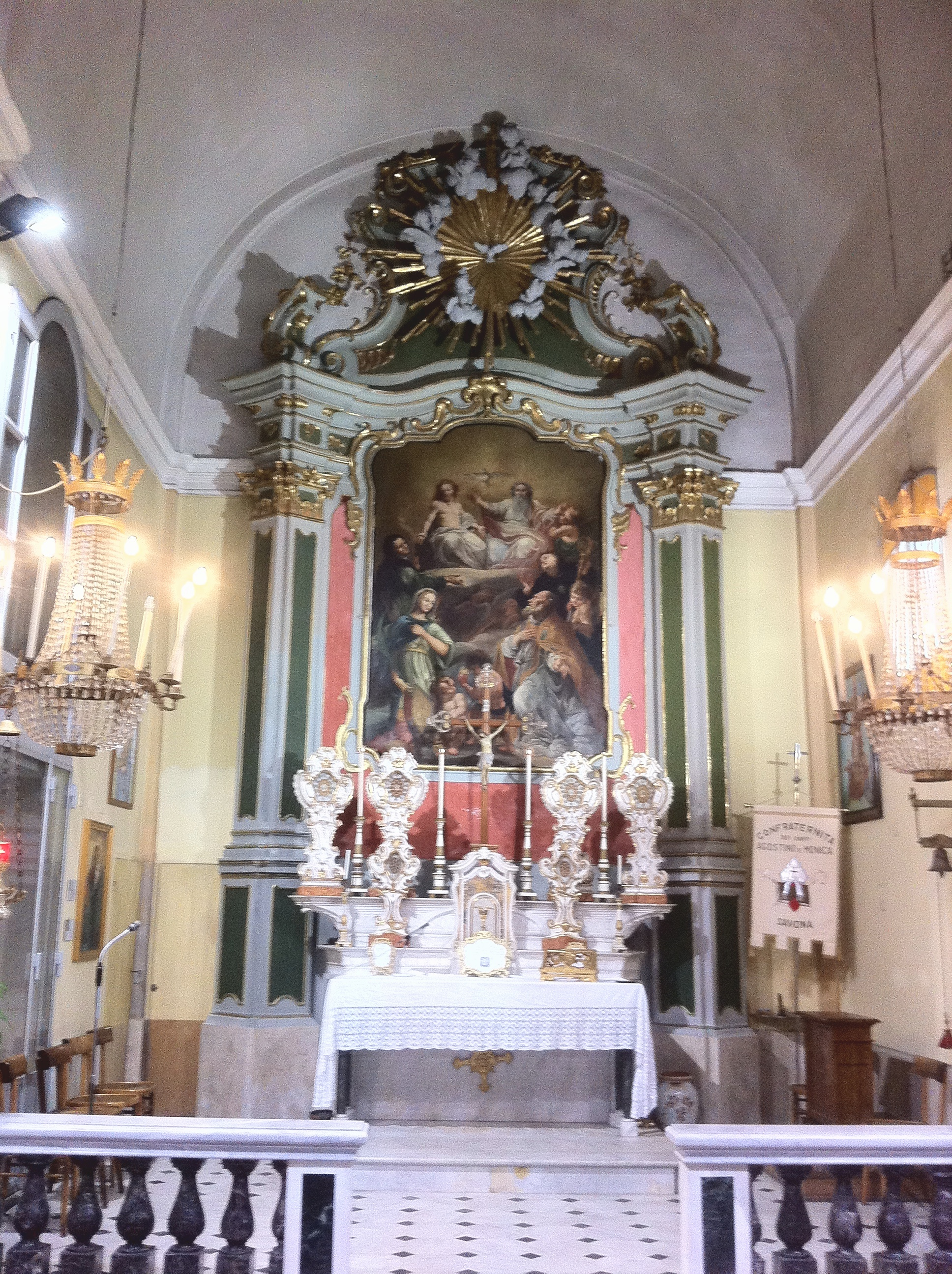 interior od Santa Lucia's Church in the city of Savona (Italy)